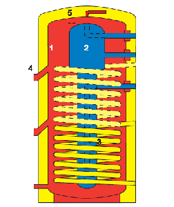 Swiss Solartank